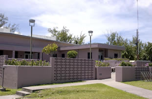 The Common Dining Facility at Camp Justice, Diego Garcia